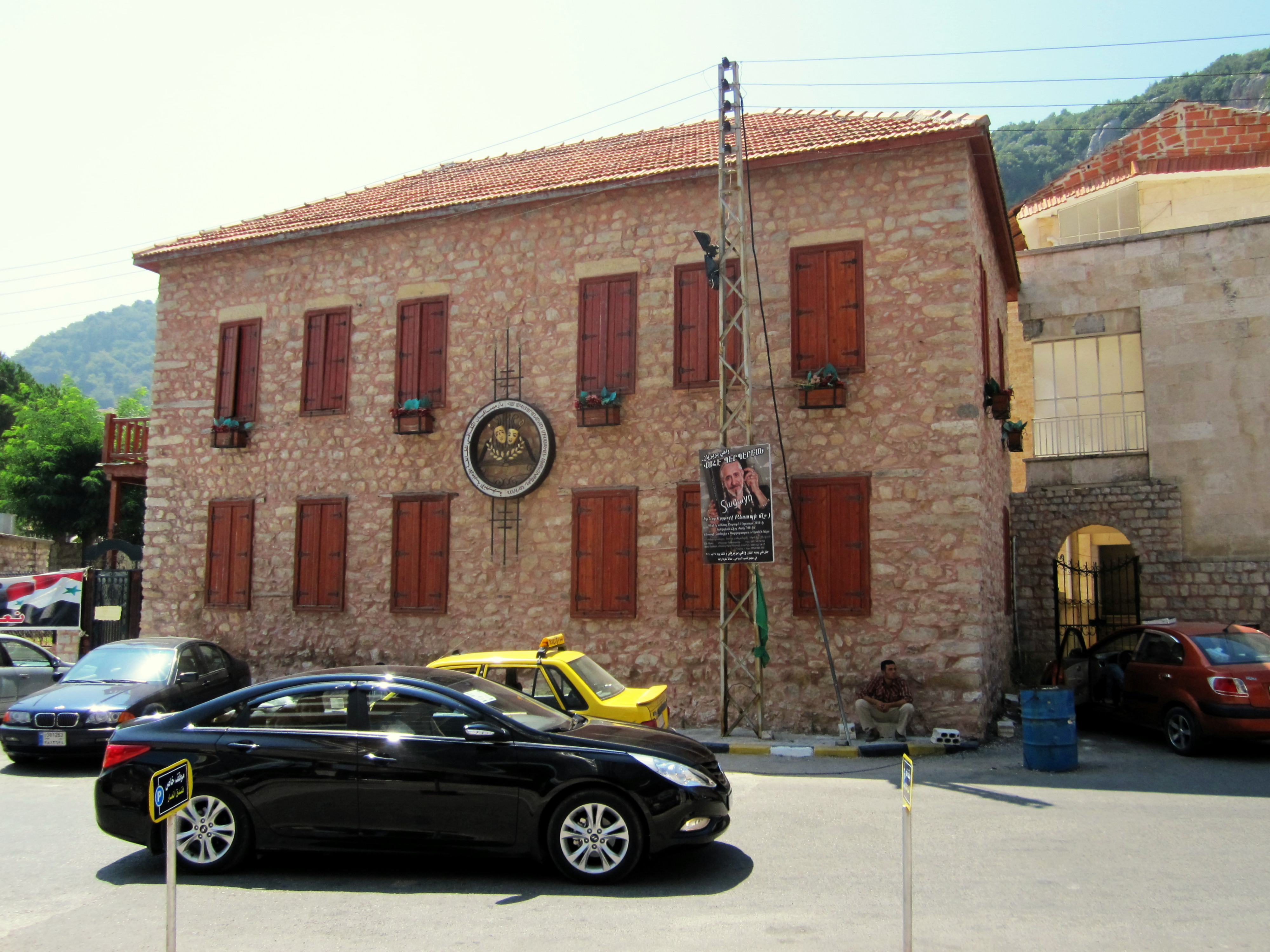 Missakian Armenian cultural centre in Kesab.